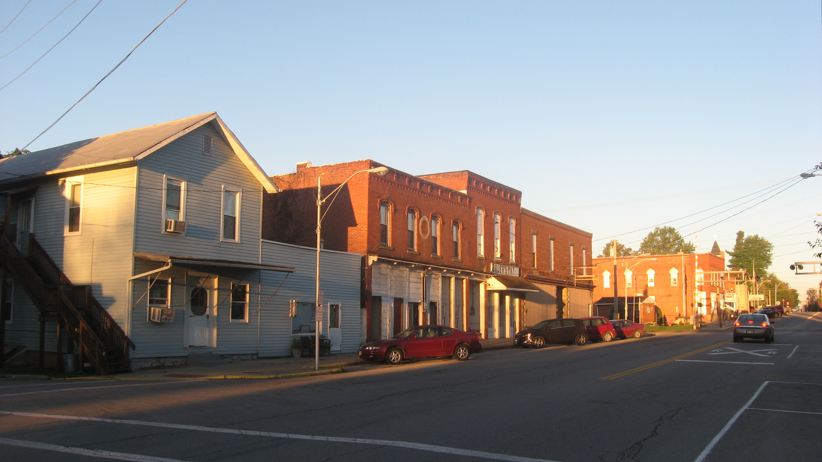 Buildings on the southern side of E. Main Street (State Route 603) east of the railroad crossing in Shiloh, Ohio, United States.